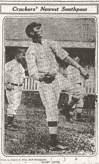 Slim Love, Atlanta Crackers baseball player